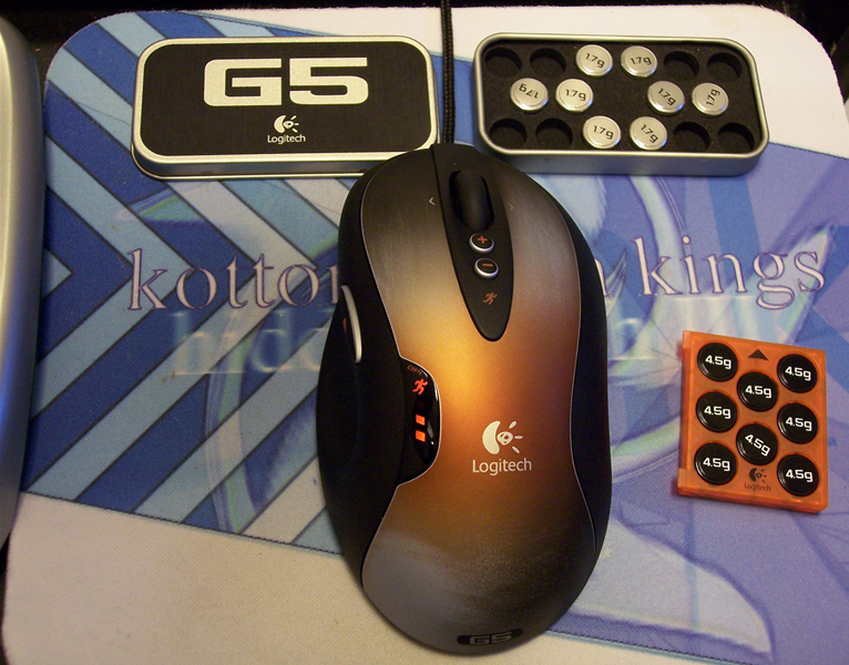 An image of the Logitech G5 Mouse with weight case and weight insert.